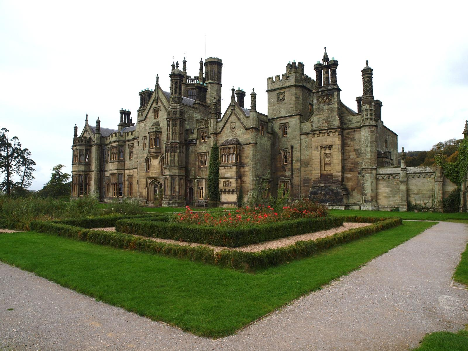 123 Margam Park 6th Oct 2010 (79)